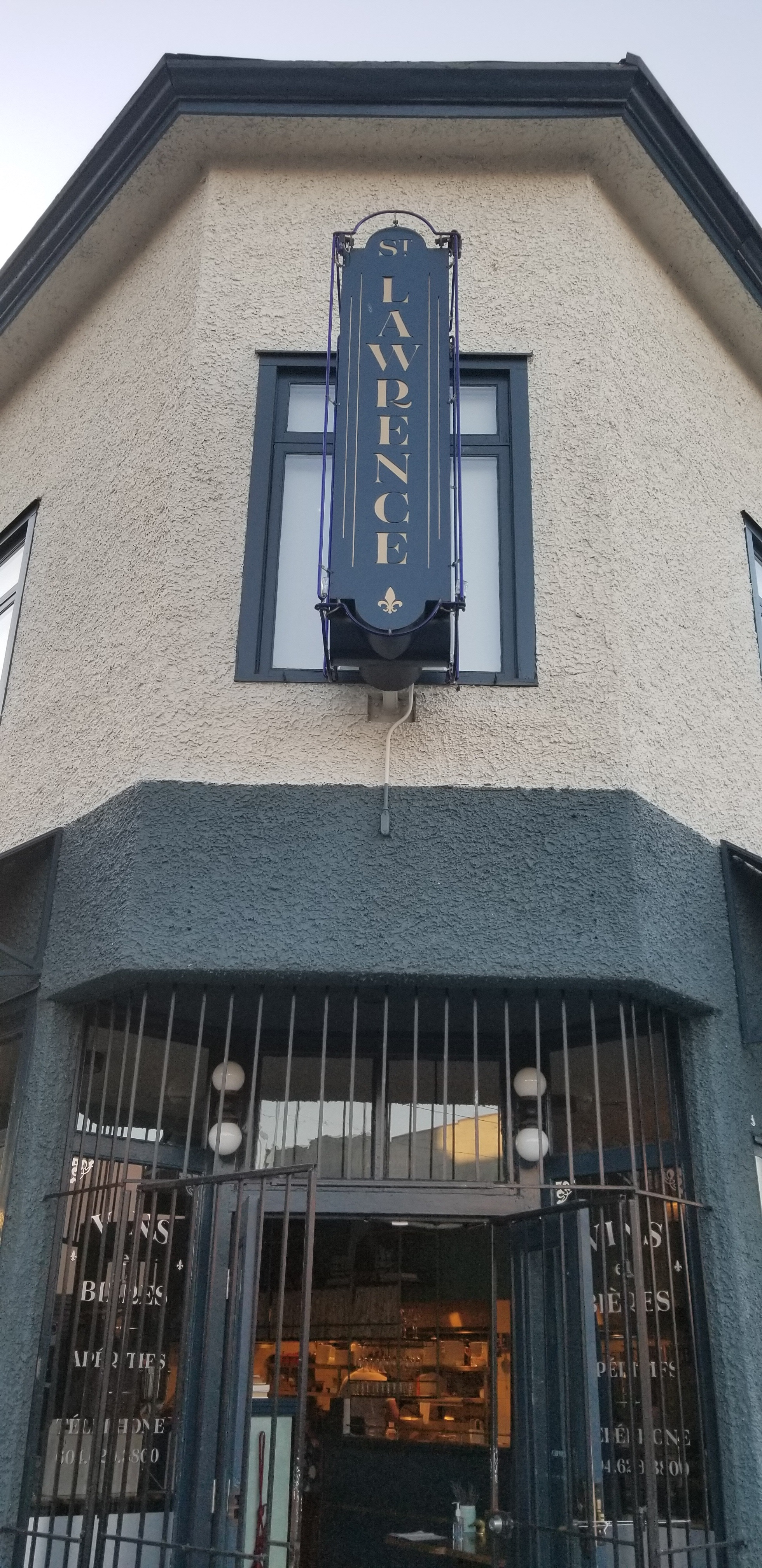 Add your file to categories so as to make it easier to find.